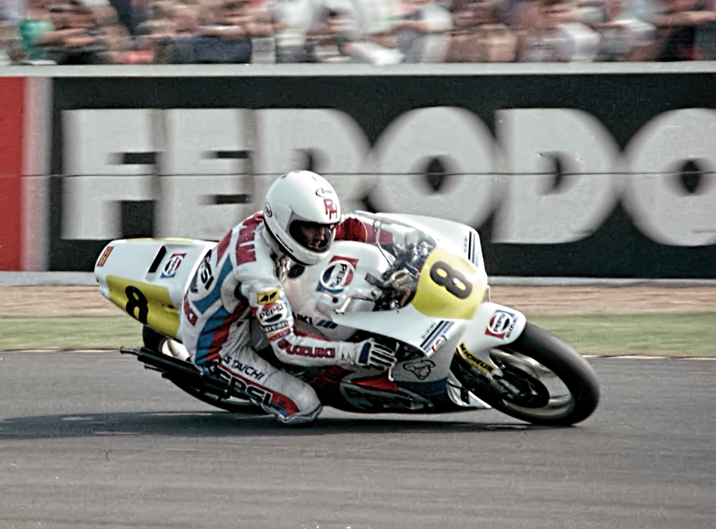 Ron Haslam, riding his Pepsi Cola Suzuki at the 1989 British Grand Prix.